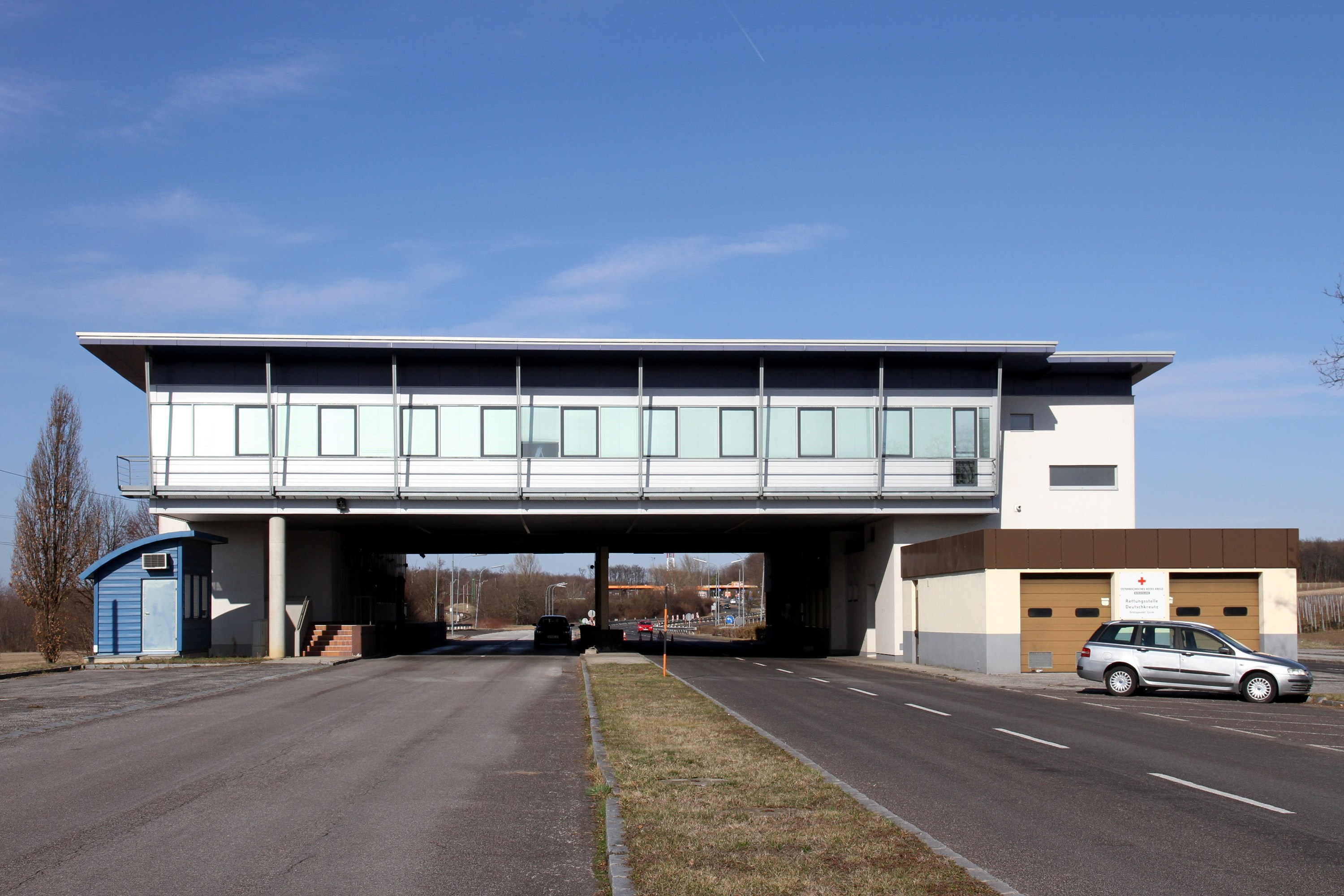 Austria-Hungary border - Deutschkreutz / Kópháza